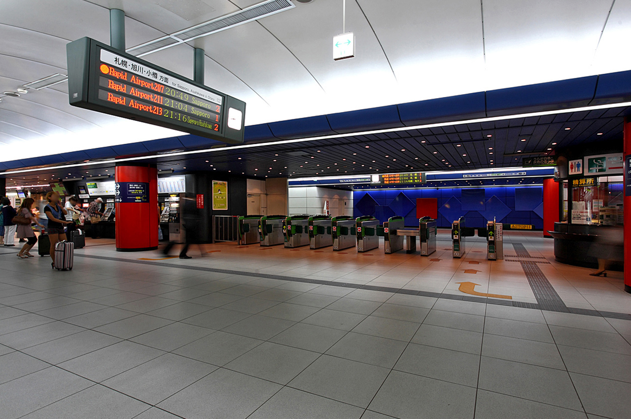 Fare gates of New Chitose Airport Station